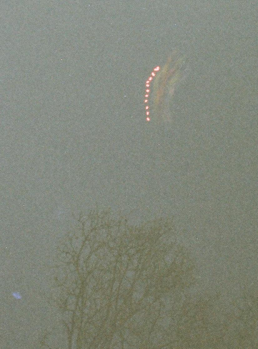 Balloon carried light effect